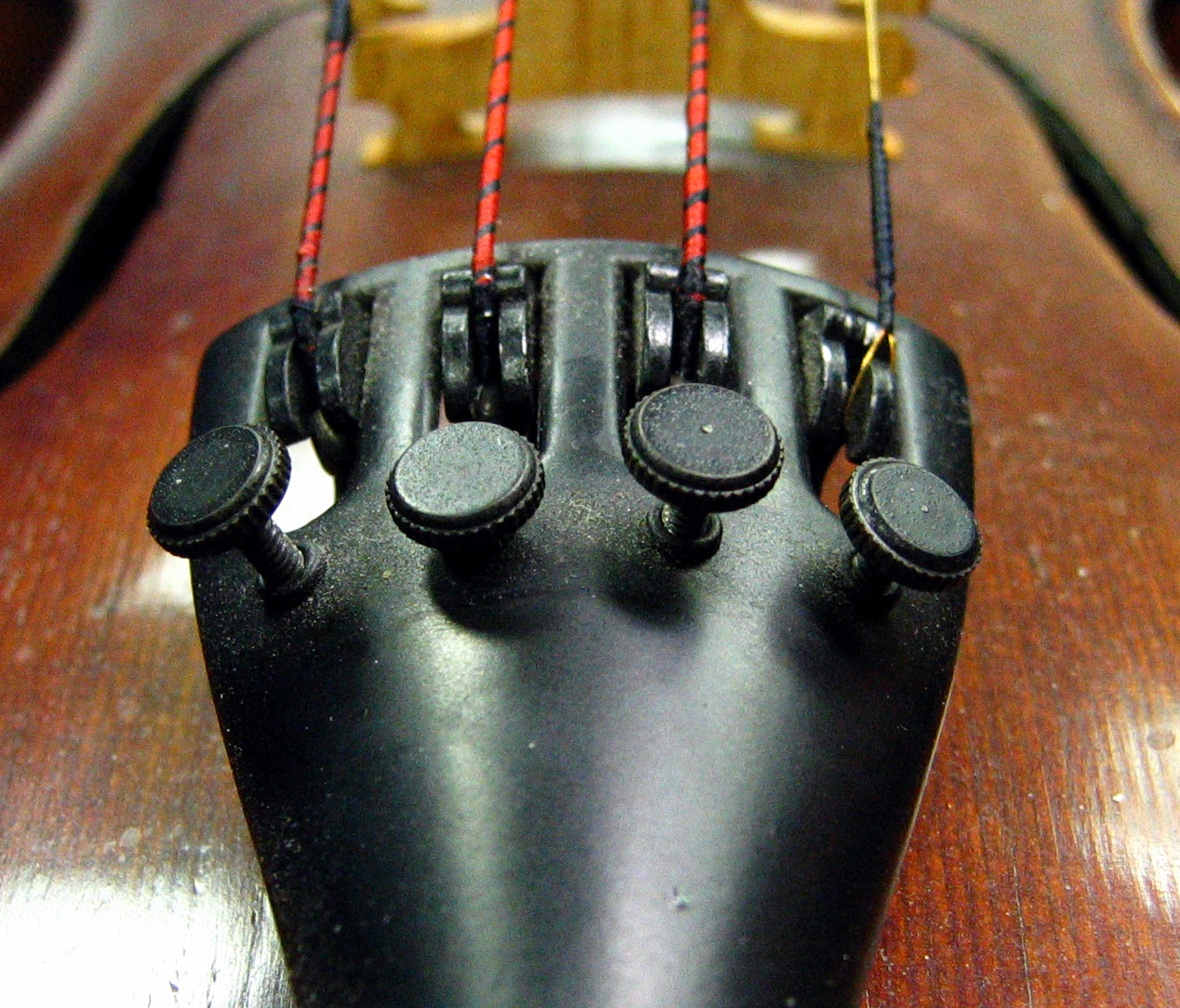 Four violin tuning pegs.